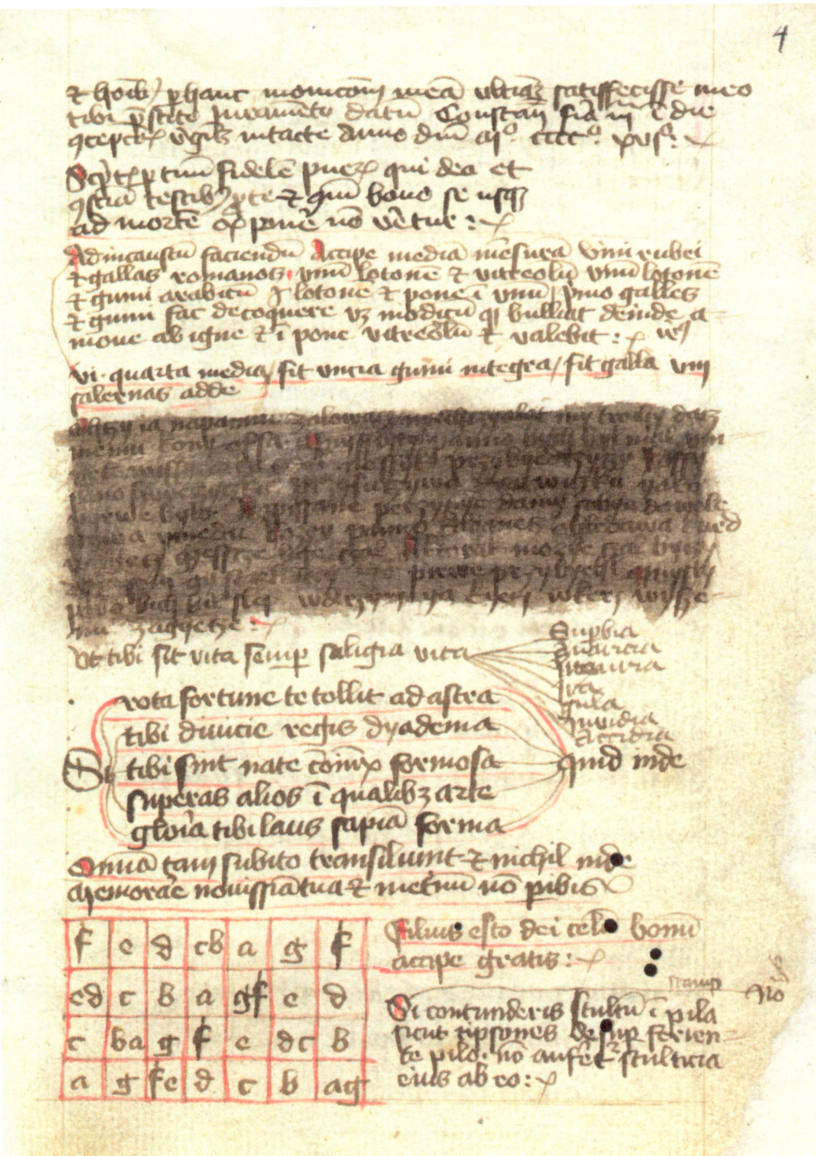 The page from the manuscript codex (from University Libraryin Wrocław, sygn. I. Q. 466) written by Mikołaj from Koźle, the fragment brurred with ink contains text of "Cantilena inhonesta".